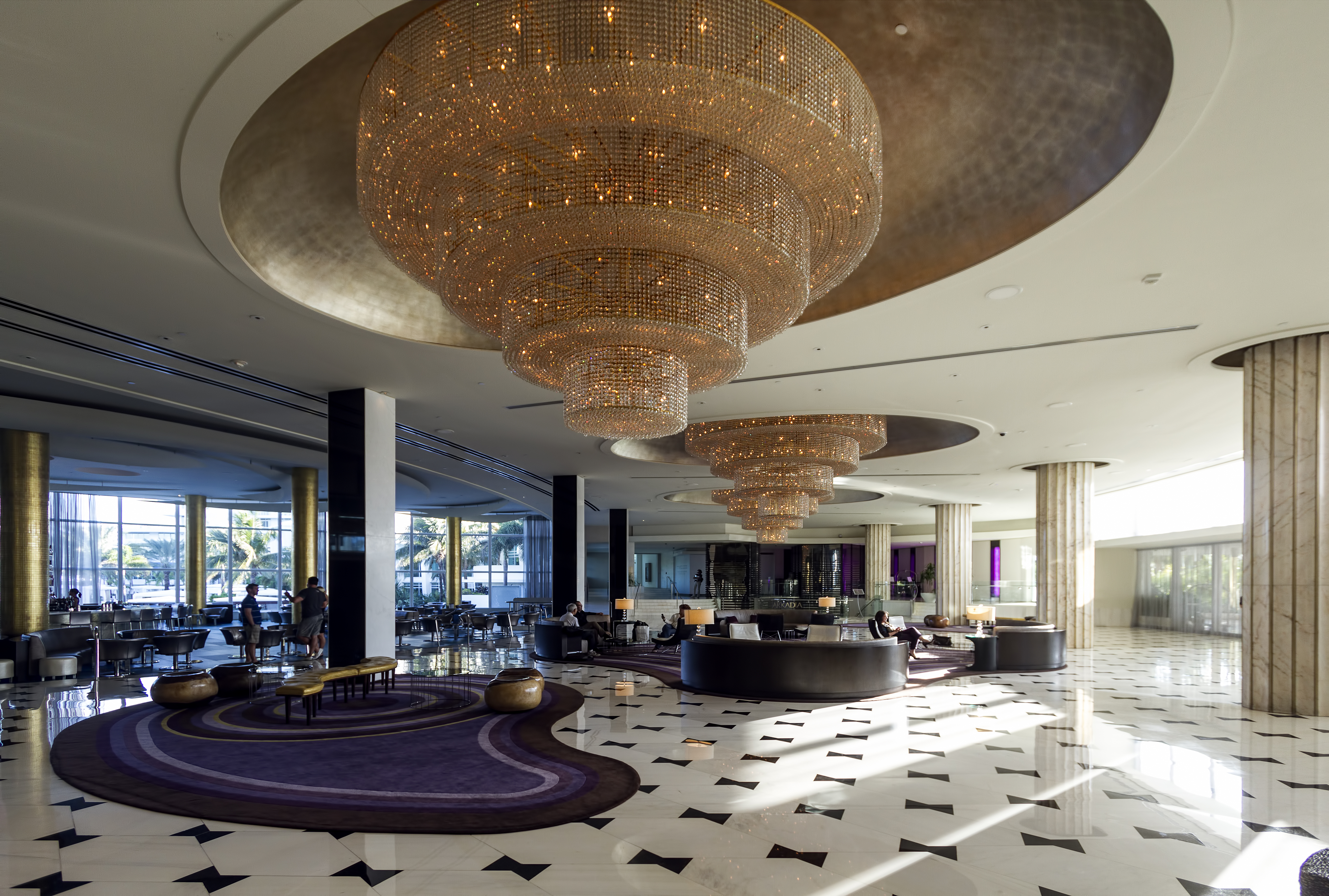 The main lobby of the Fontainebleau Miami Beach, Florida, USA